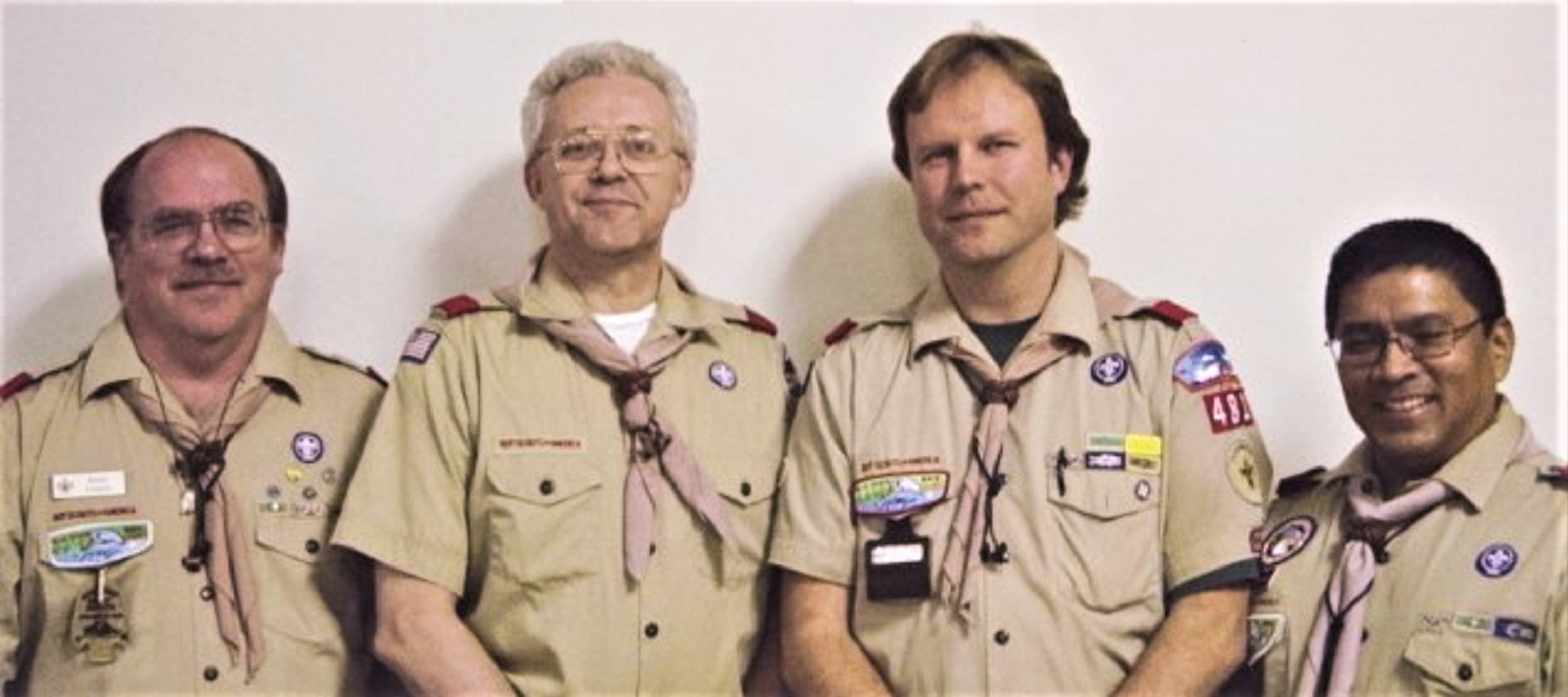 Four American Wood Badgers from SR-703. Jan 25, 2007.